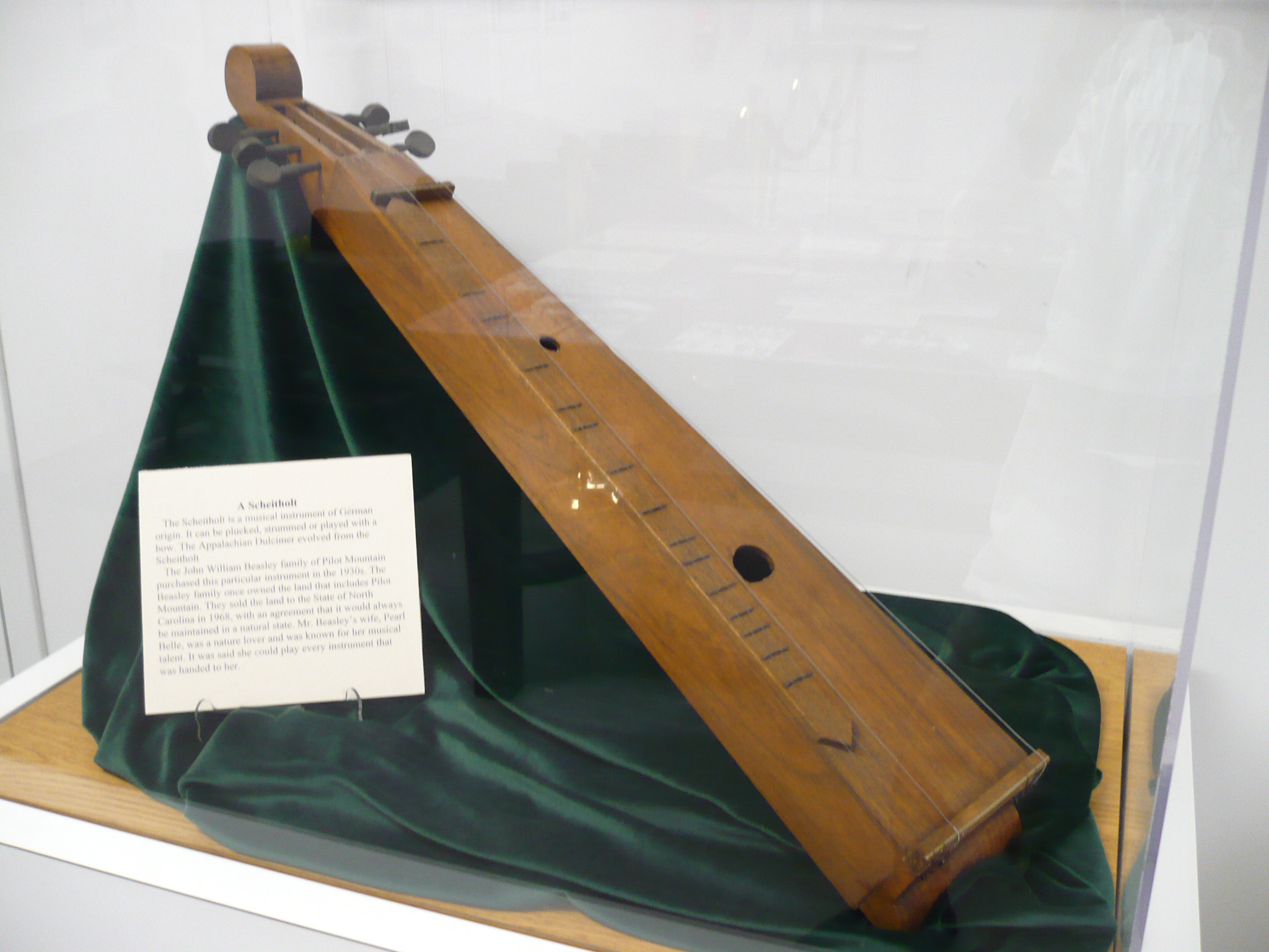 A six-stringed scheitholt in a display case. Photo taken in the music exhibit on the second floor of the Mount Airy Museum of Regional History in Mount Airy, North Carolina, United States, on Friday, June 5, 2009. The John William Beasley family of Pilot Mountain, North Carolina, purchased this instrument in the 1930s.